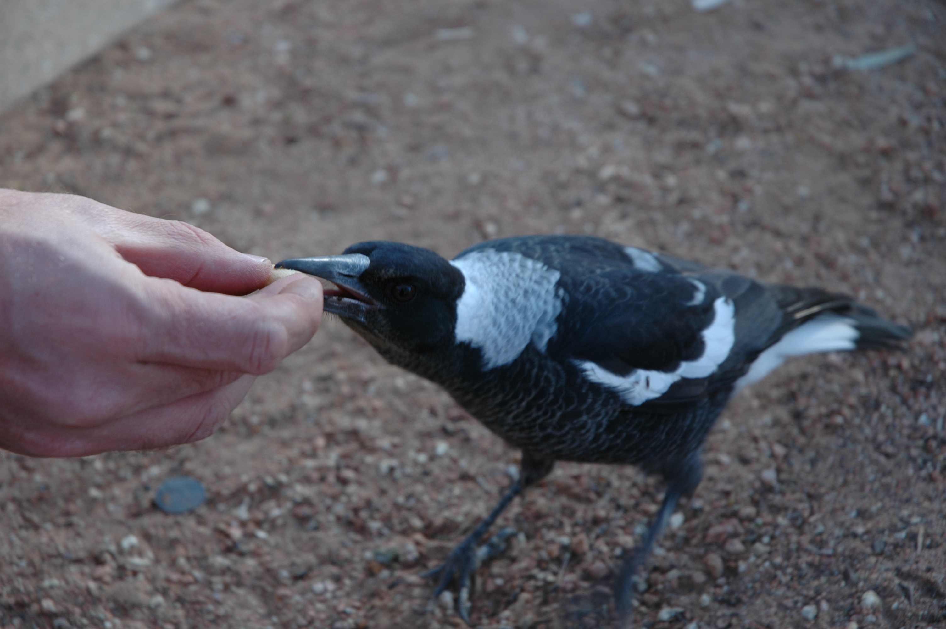 An Australian Magpie being fed by a human.